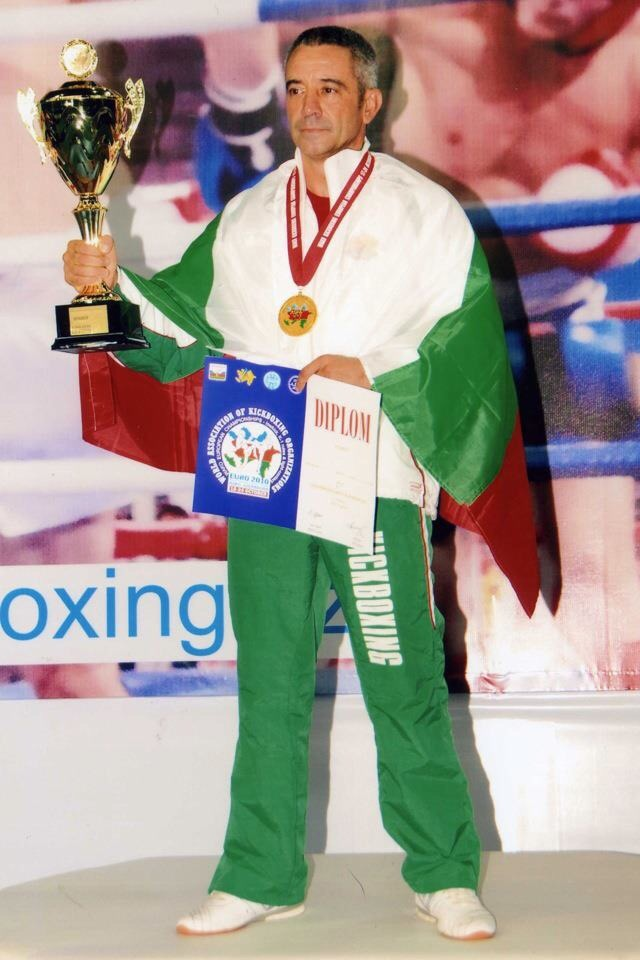 Rusko Turmanov - European Champion in Baku